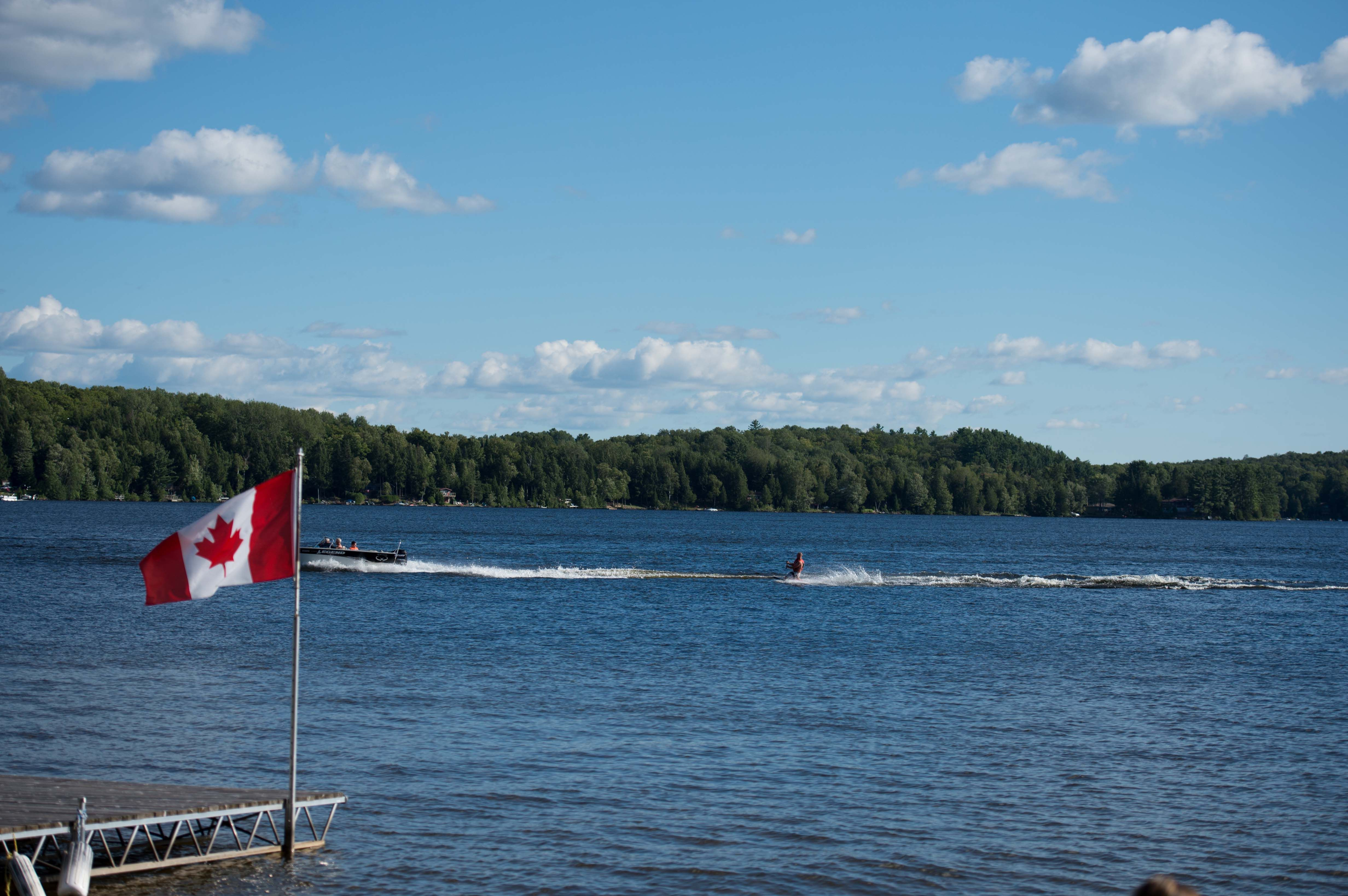 Summer activities at Wollaston Lake, Ontario, Canada